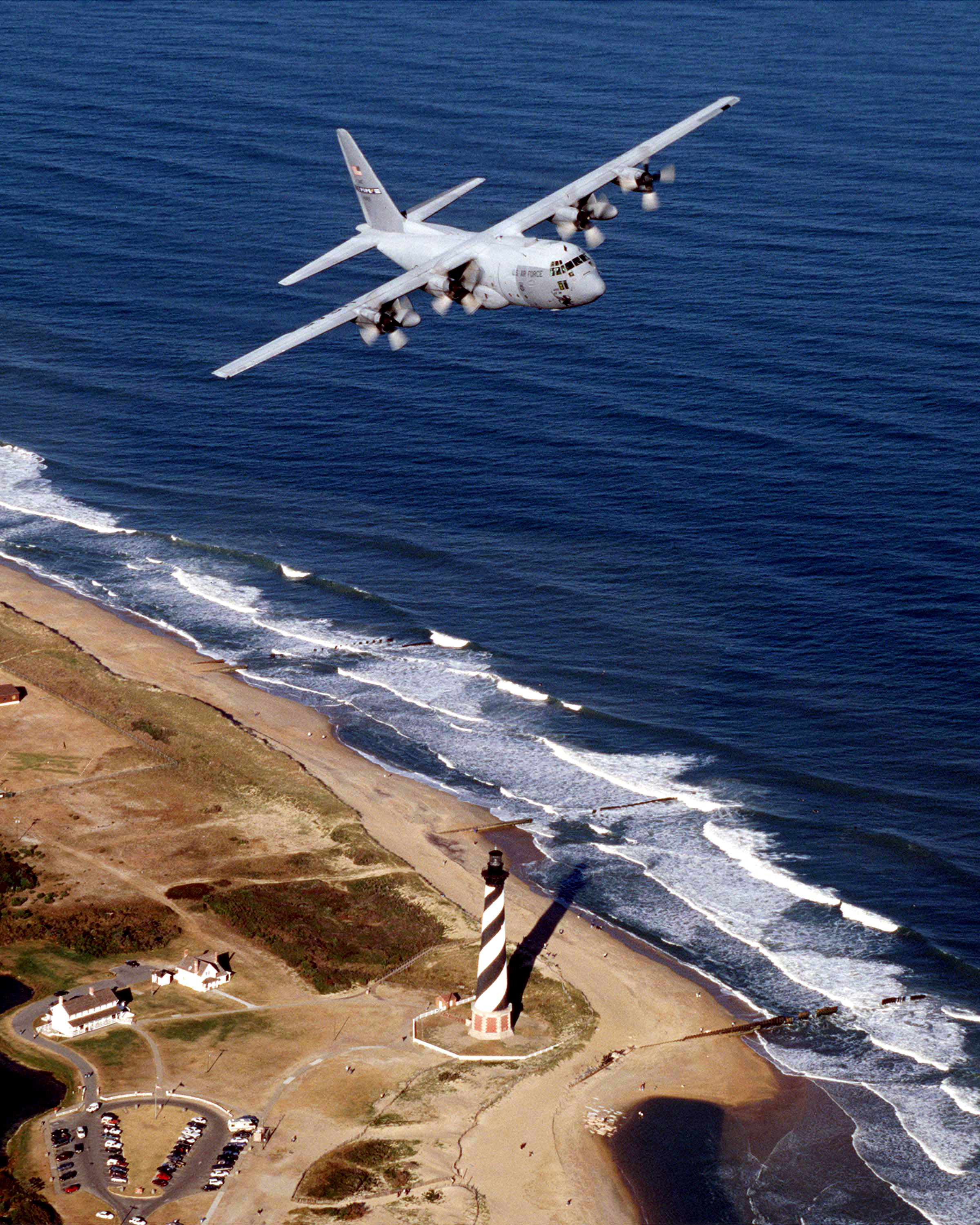 A U.S. Air Force C-130E Hercules flies over the Cape Hatteras Lighthouse on the North Carolina coast on Jan. 1, 1999. The Hercules is the Air Force's main transport for intratheater airlift. Capable of operating from rough, dirt, landing strips, the aircraft is the prime transport for dropping paratroops and equipment into hostile or remote areas. This Hercules is attached to the 2nd Airlift Squadron, Pope Air Force Base, N.C.